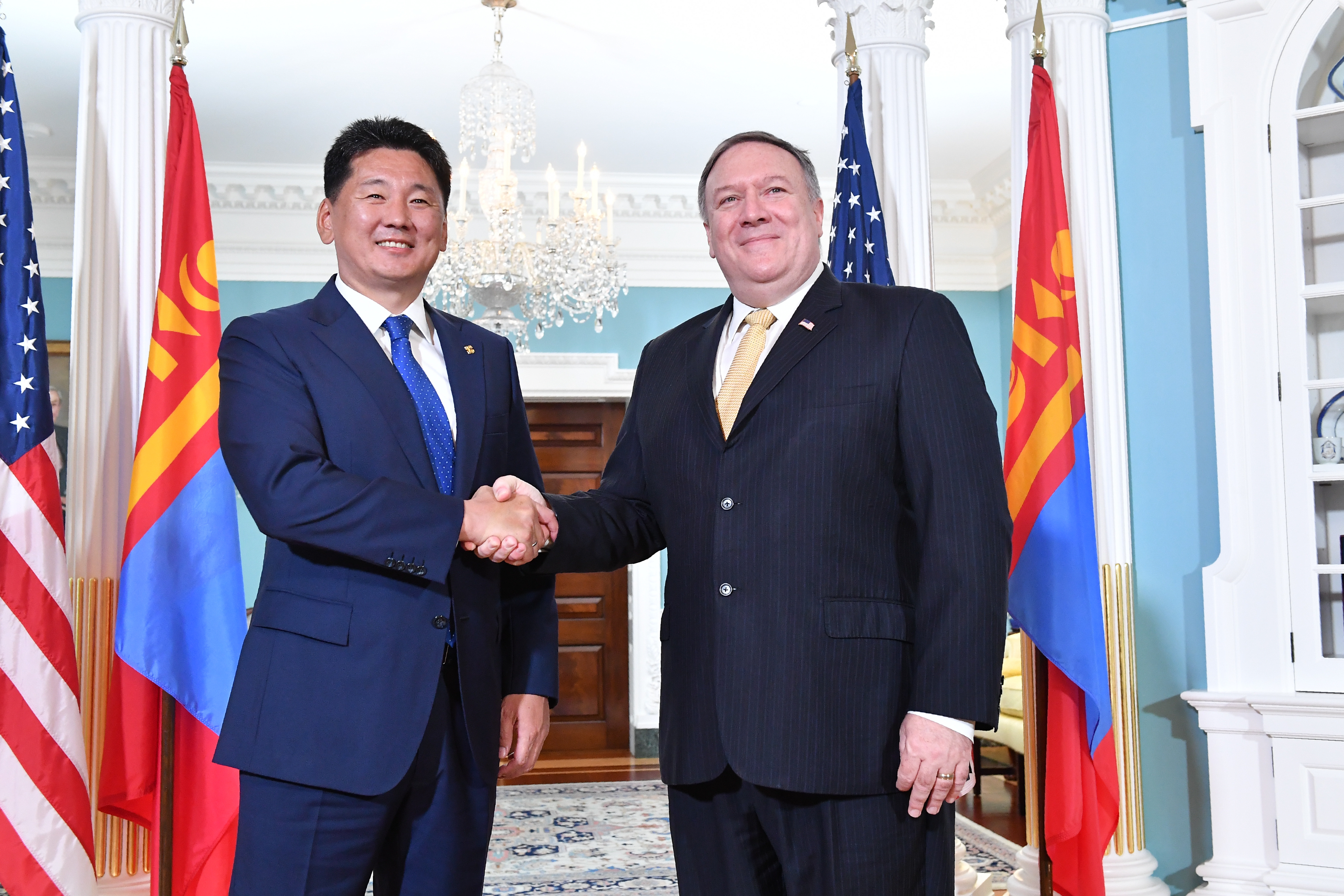 Secretary Michael R. Pompeo meets with Mongolian Prime Minister Khurelsukh Ukhnaa, at the Department of State, September 20, 2018. [State Department Photo by Michael Gross/ Public Domain]